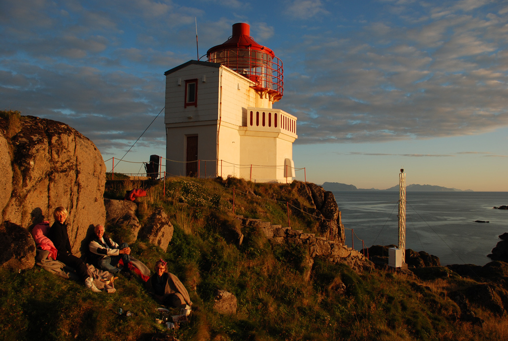 Litløy fyr (lighthouse), Norway.